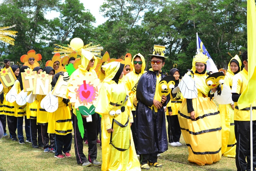 SUKAN 12